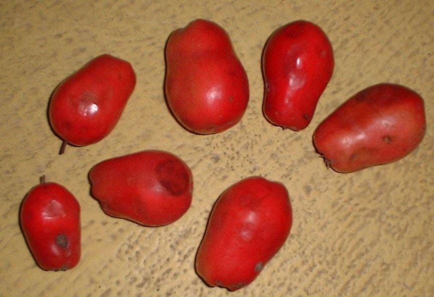 Winter Redflesh crabapple, an edible variety, British Columbia